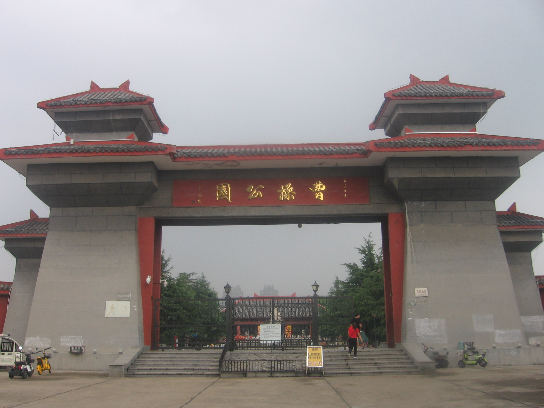 Cao Cao Park in Bozhou, Anhui, China.